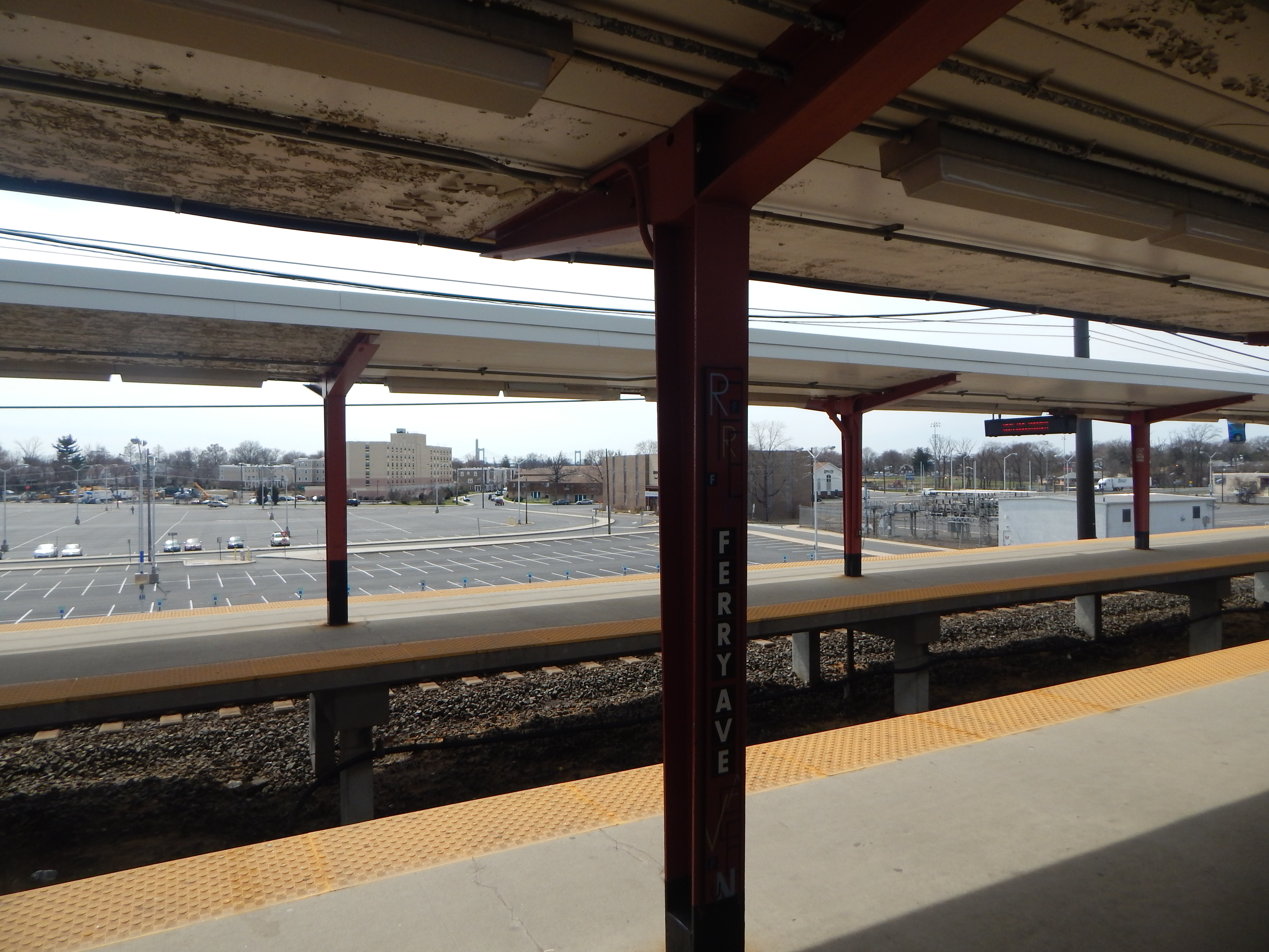 Two island platforms - the split halves of the main island platform - at Ferry Avenue station in December 2016